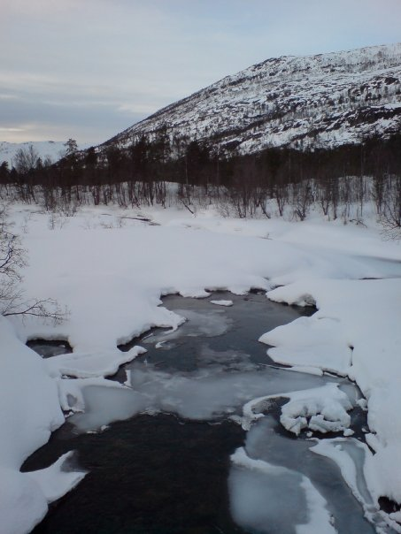 River with ice on it, some opening and visible water running